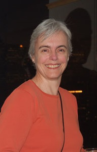 Australian writer Margo Lanagan. Photographed by Catriona Sparks.